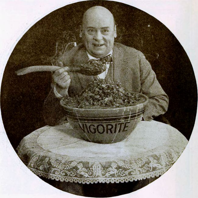 Still cropped for publication from the American comedy short film The New Breakfast Food (1919) with William Parsons aka "Smiling Bill Parsons", on page 1138 of the March 1, 1919 Moving Picture World.